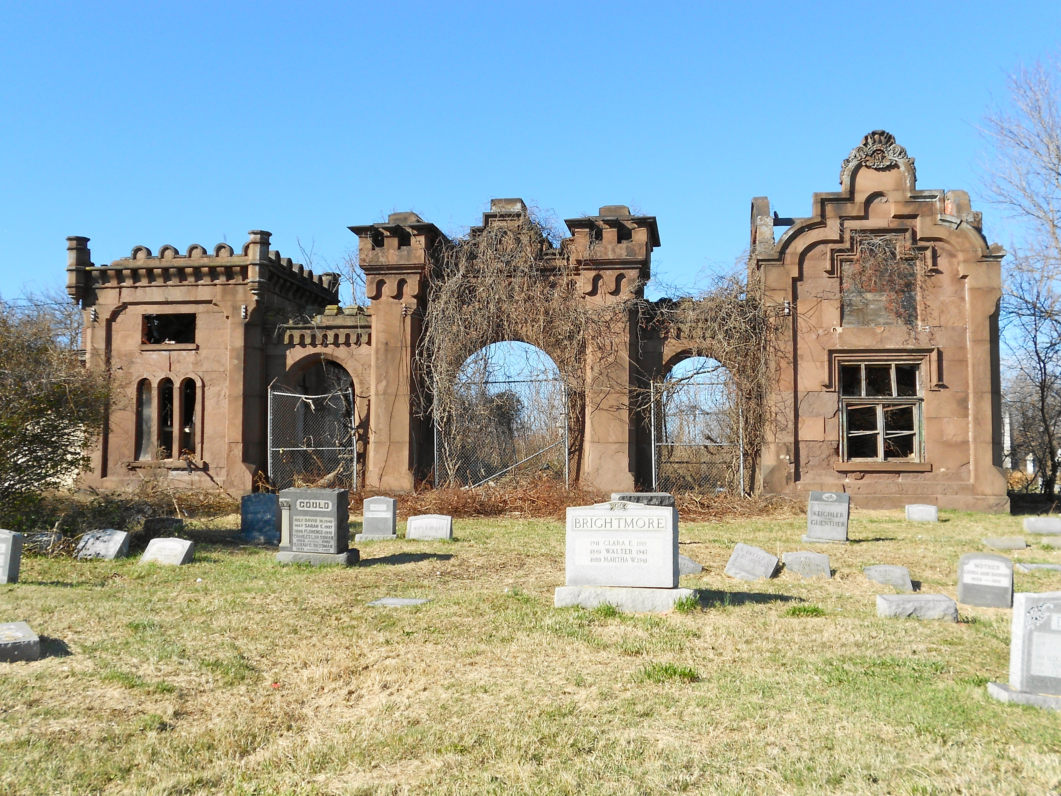 Gatehouse designed by Stephen Decatur Button in 1855 for the Mt. Moriah Cemetery.